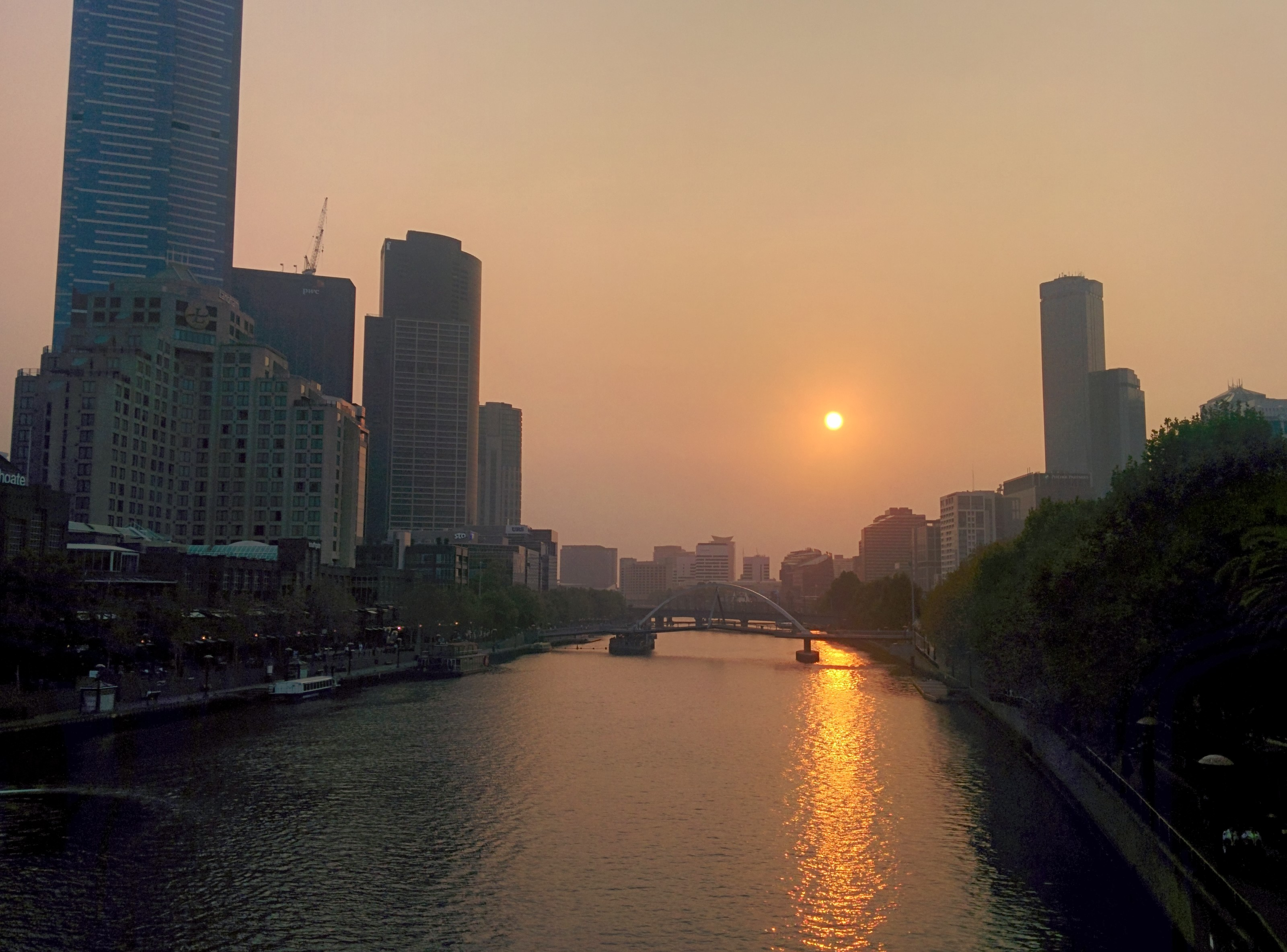 Yarra River and Southbank Bridge at sunset in Melbourne, Australia.